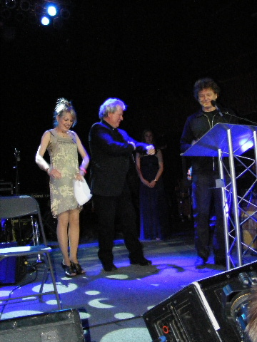 Tina Weymouth, Chris Frantz and Jerry Harrison. Austin Music Awards during SXSW 2010. Photo by Ron Baker.